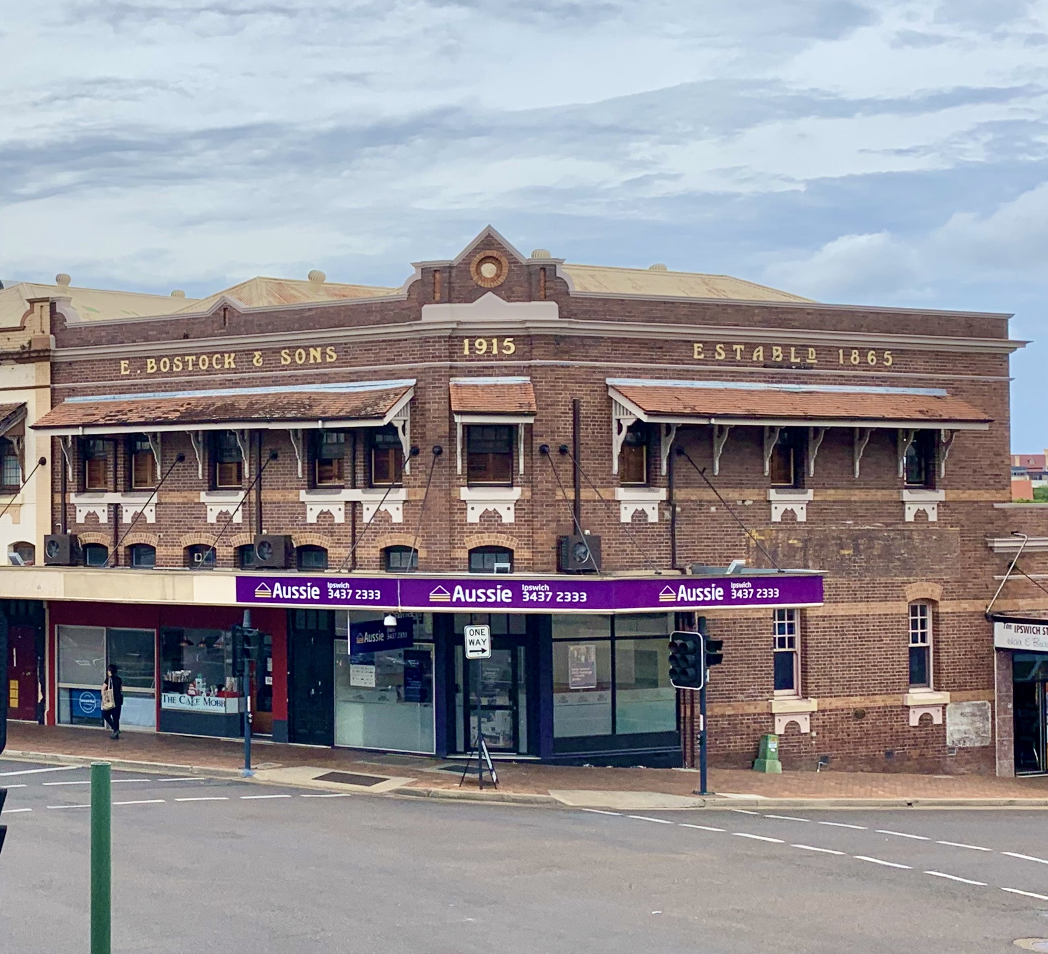 Bostock Chambers closeup, Brisbane Street, Ipswich, Queensland, 2020